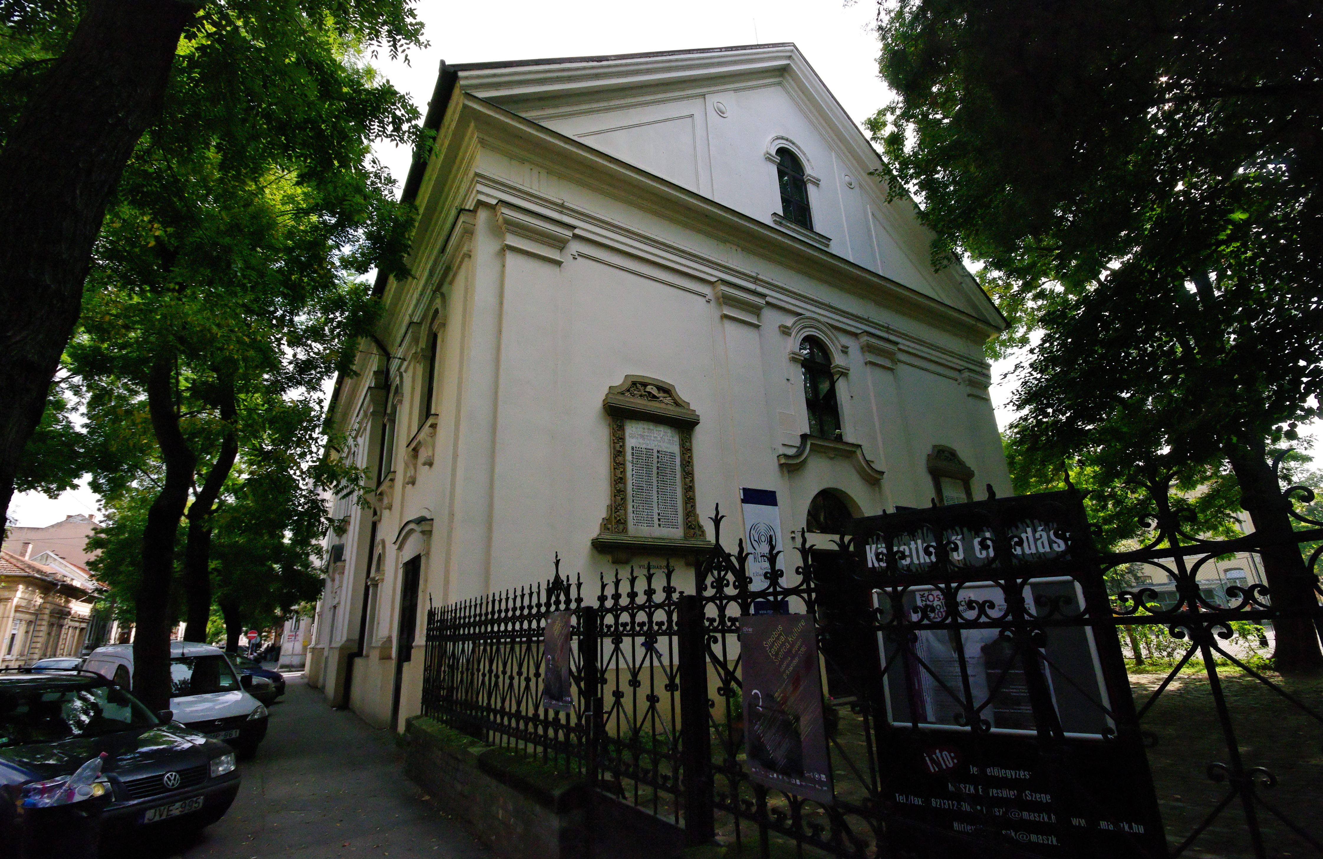 Old Neoclassic architecture of a Synagogue in Szeged, Hungary.